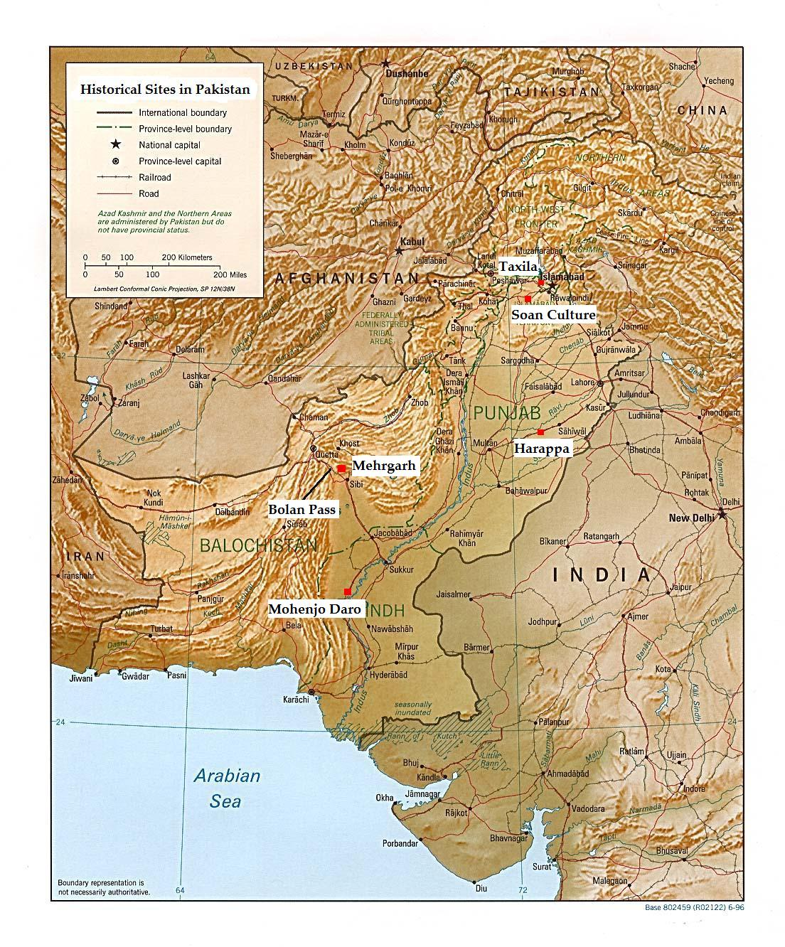 This is an annotated version of a relief map of Pakistan in the public domain([1]). The map was annotated by Fowler&fowler«Talk» 17:35, 9 March 2007 (UTC) and re-released to the public domain.